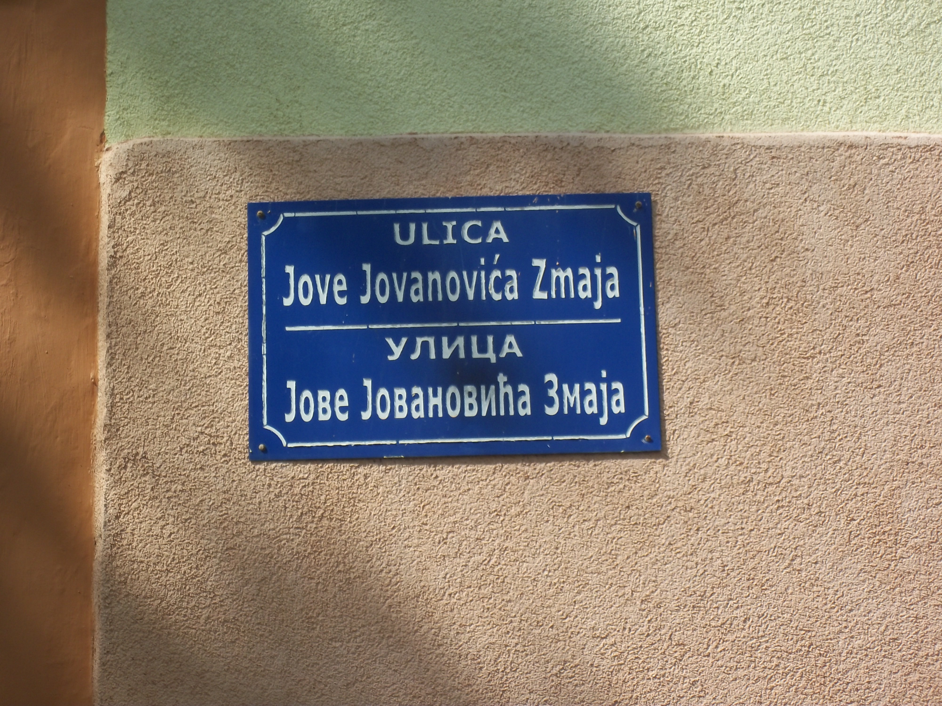 Gaboš, Markušica, Croatia